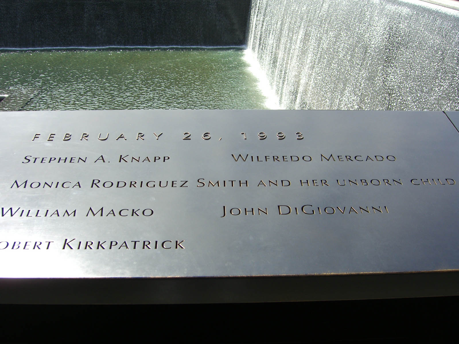 The names of the victims of the 1993 World Trade Center bombing on Panel N-73 of the North Pool of the National September 11 Memorial in Manhattan, on April 28, 2012. This photo was created by Luigi Novi. If you have any questions, you can contact me by sending me an email or leaving a note at the bottom of my talk page.